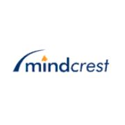 Mindcrest Logo